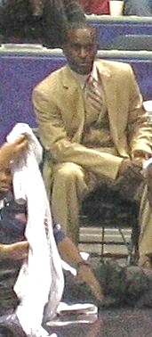 Brevin Knight on the bench due to injury